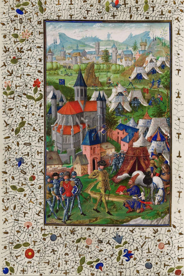 Bertrandon de la Broquière offers a Koran to Duke Philip